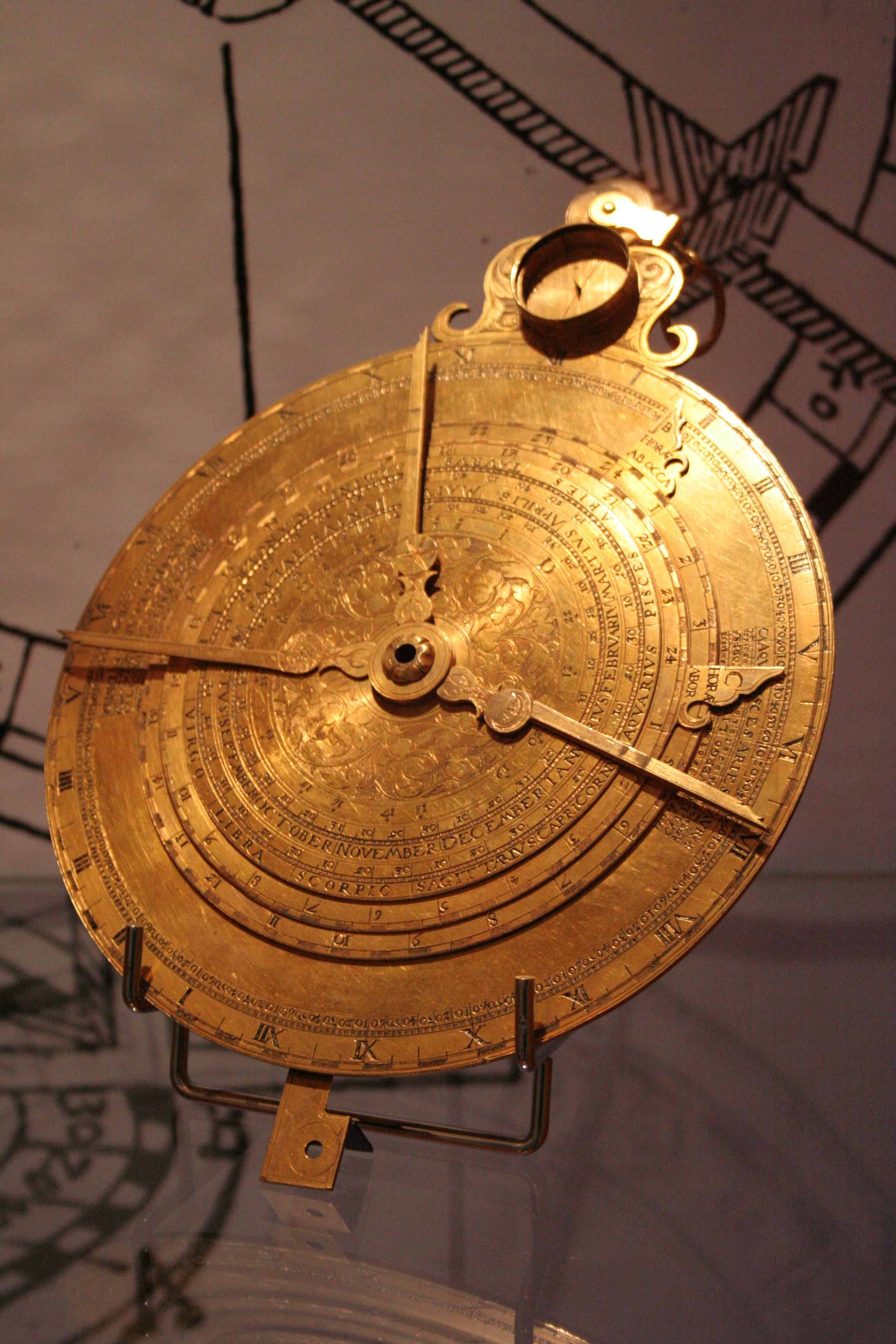 Nocturnal, Vienna, Observatory of Paris. Taken at a temporary exposition at the Kerjean castle, Saint-Vougay, France.